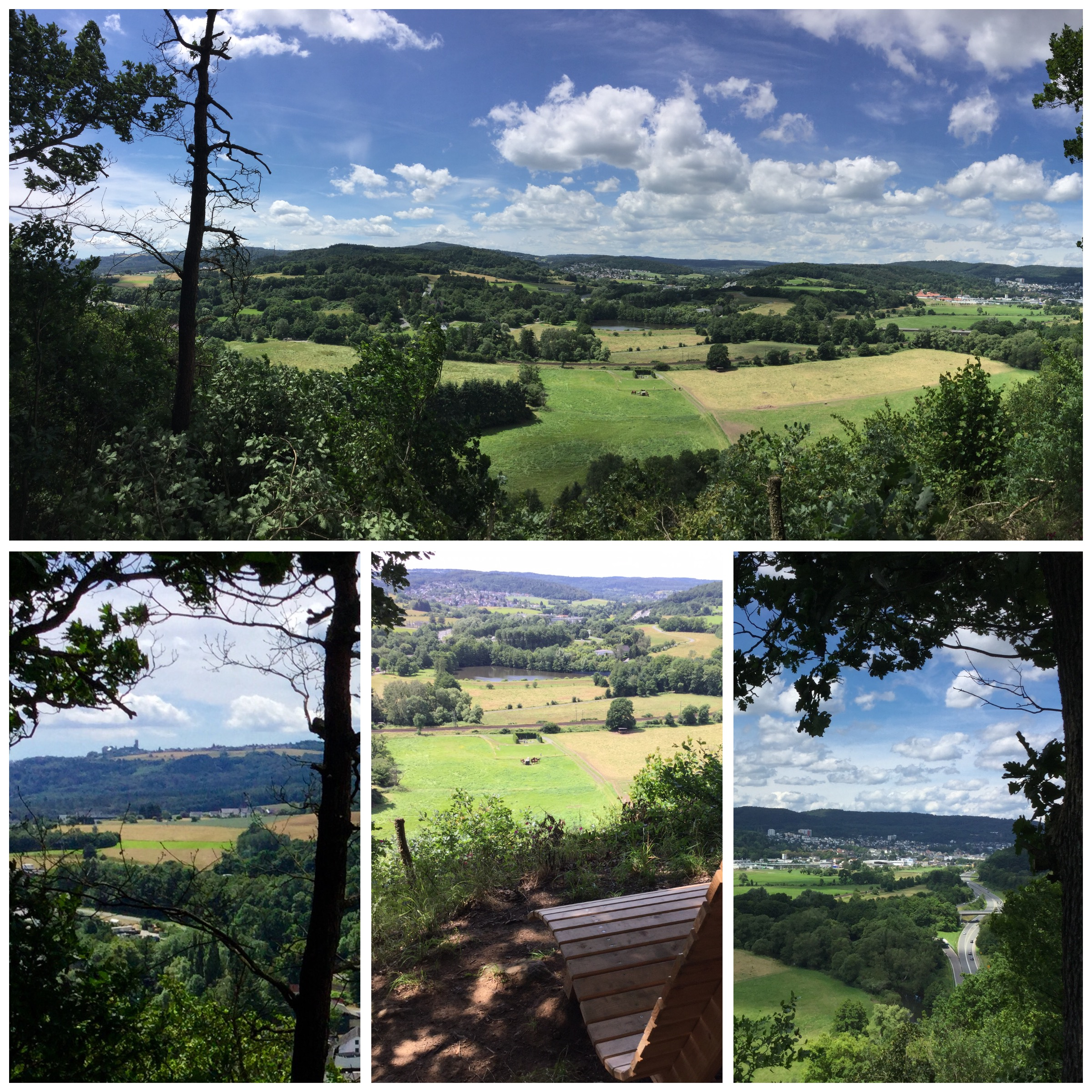 Lookout Herborner Beilstein. Site designation "Am Pavillon". 160° perspective - left: Ruin Greifenstein - mid: Dill valley with Sinner pond and Rehbach - right: Herborn with castle.